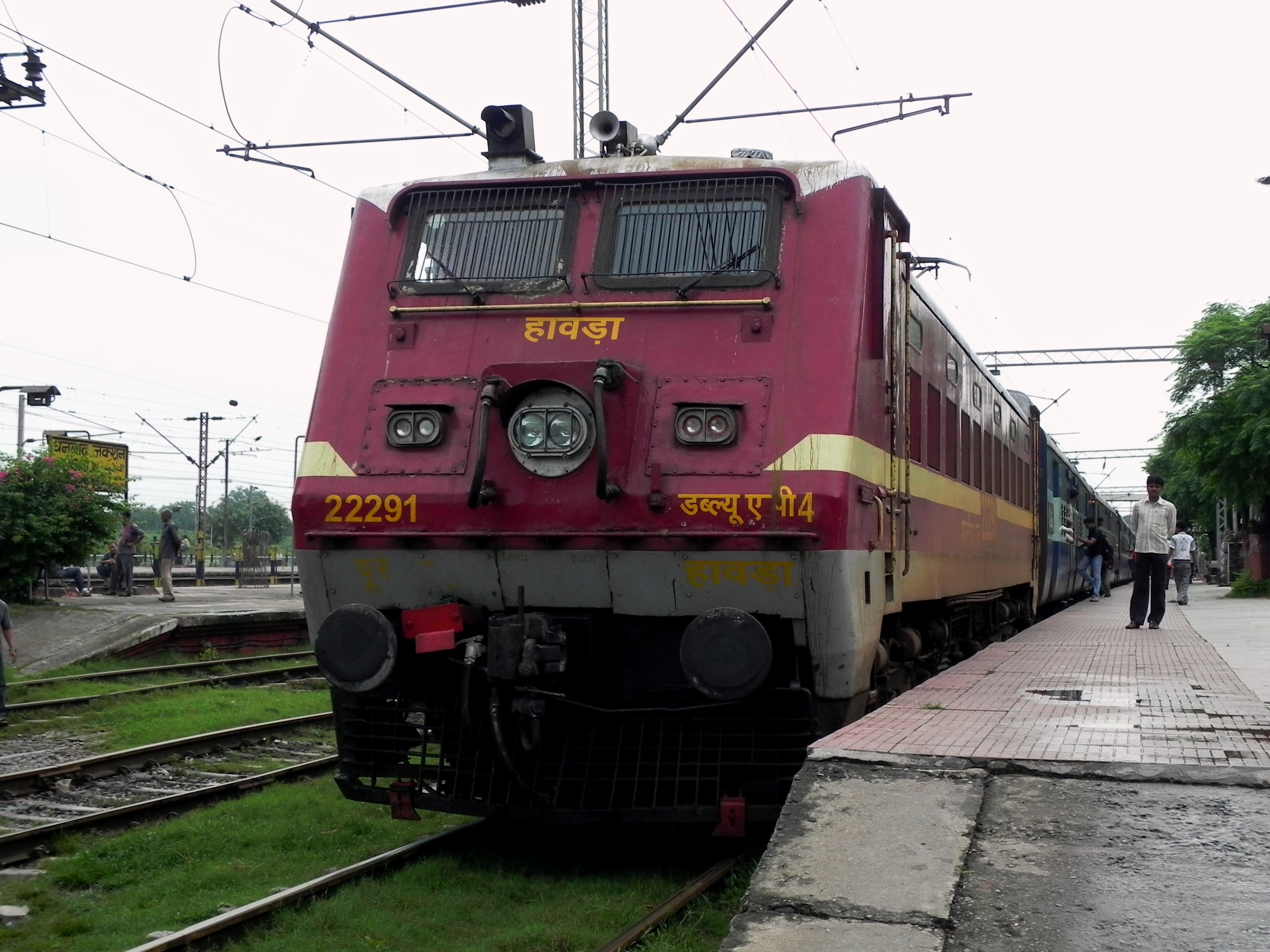 13318 (Dhanbad-Howrah) Black Diamond Express at Dhanbad